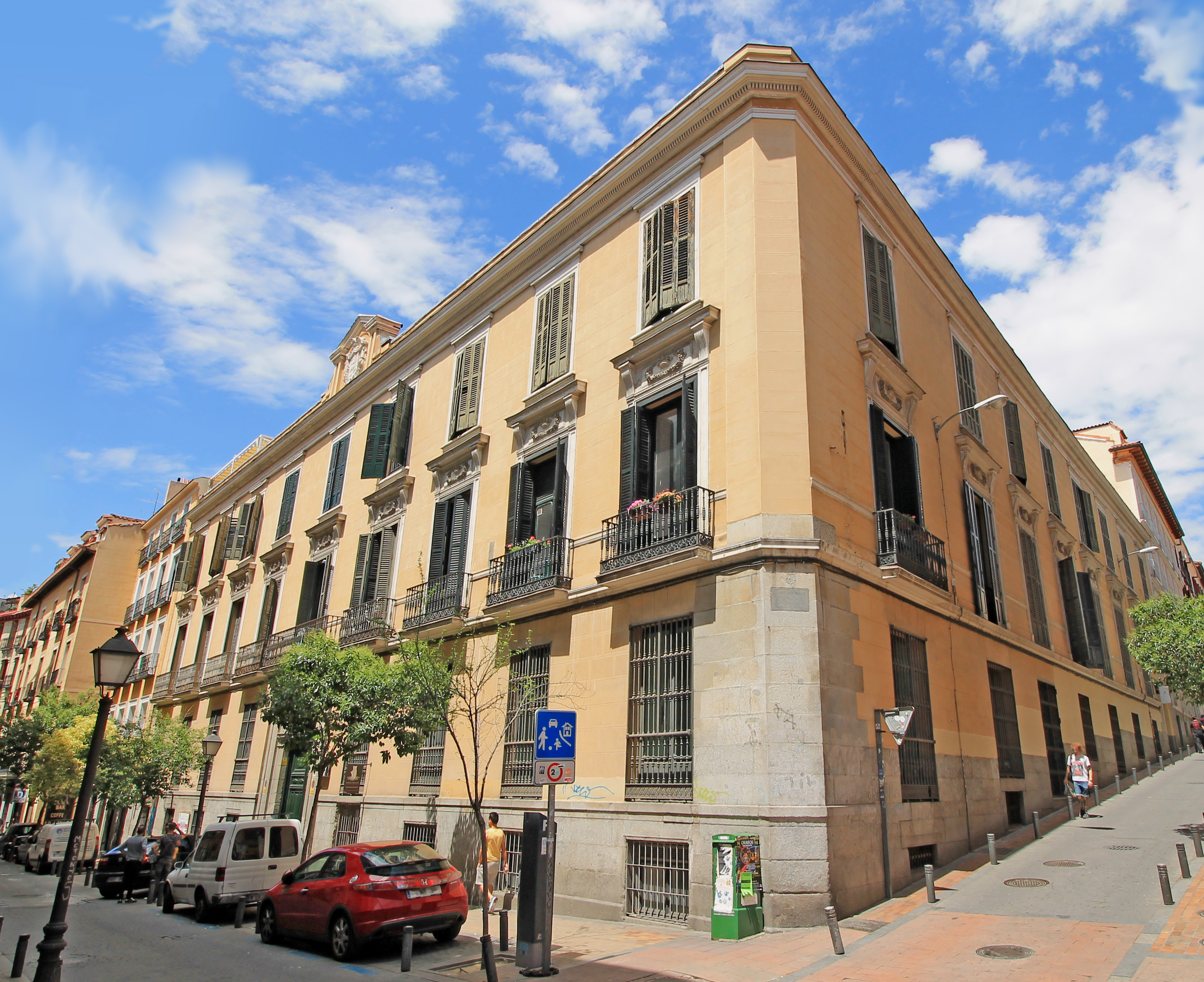 Façade of the former mansion of the Marquis of Escalona and Bornos at 12 Calle del Pez (street) in Centro district in Madrid (Spain). It was designed in 1860 by architect Wenceslao Gaviña and built from 1860 to 1862.